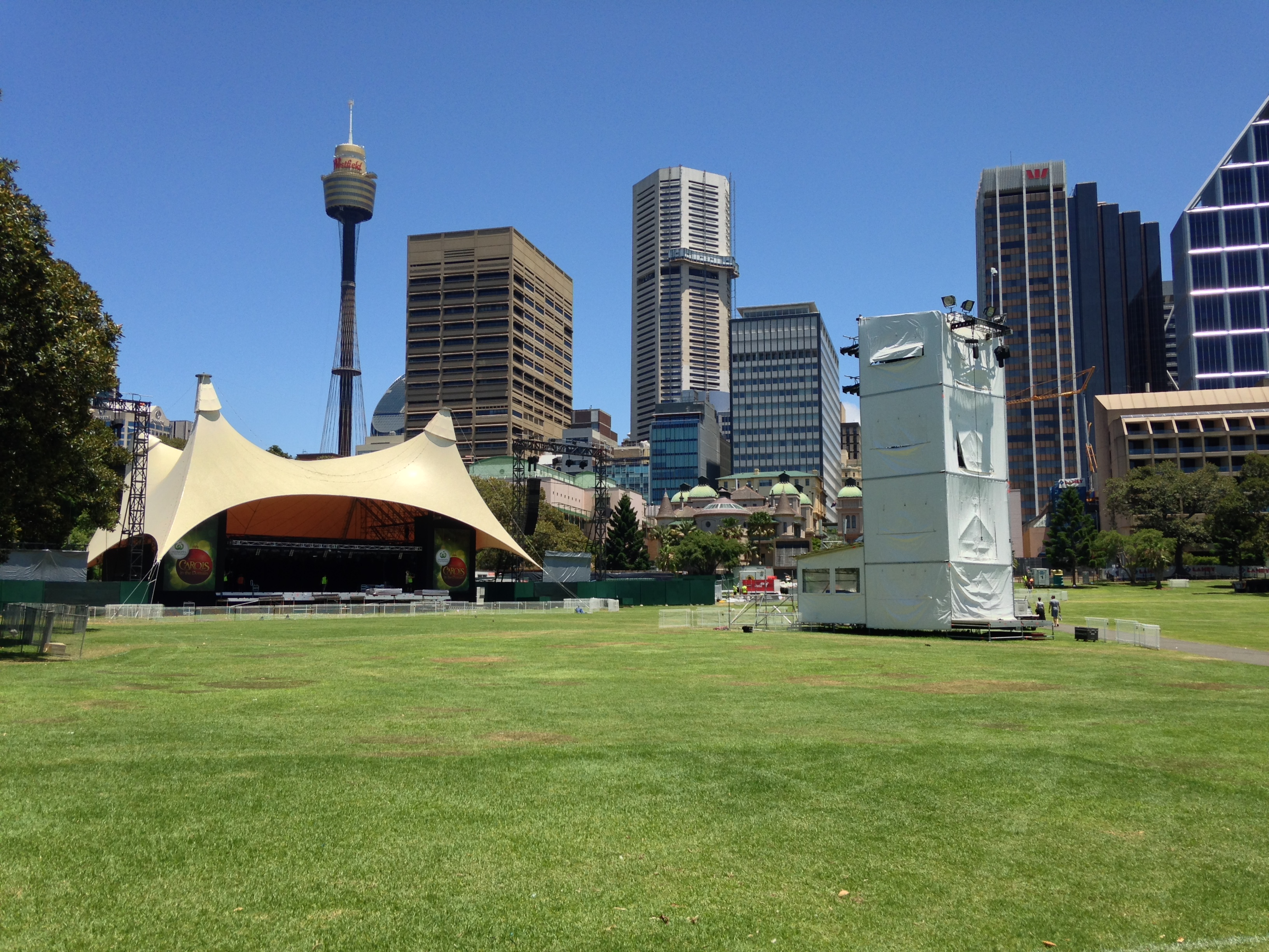 The temporary summer stage in The Domain, Sydney in December 2014